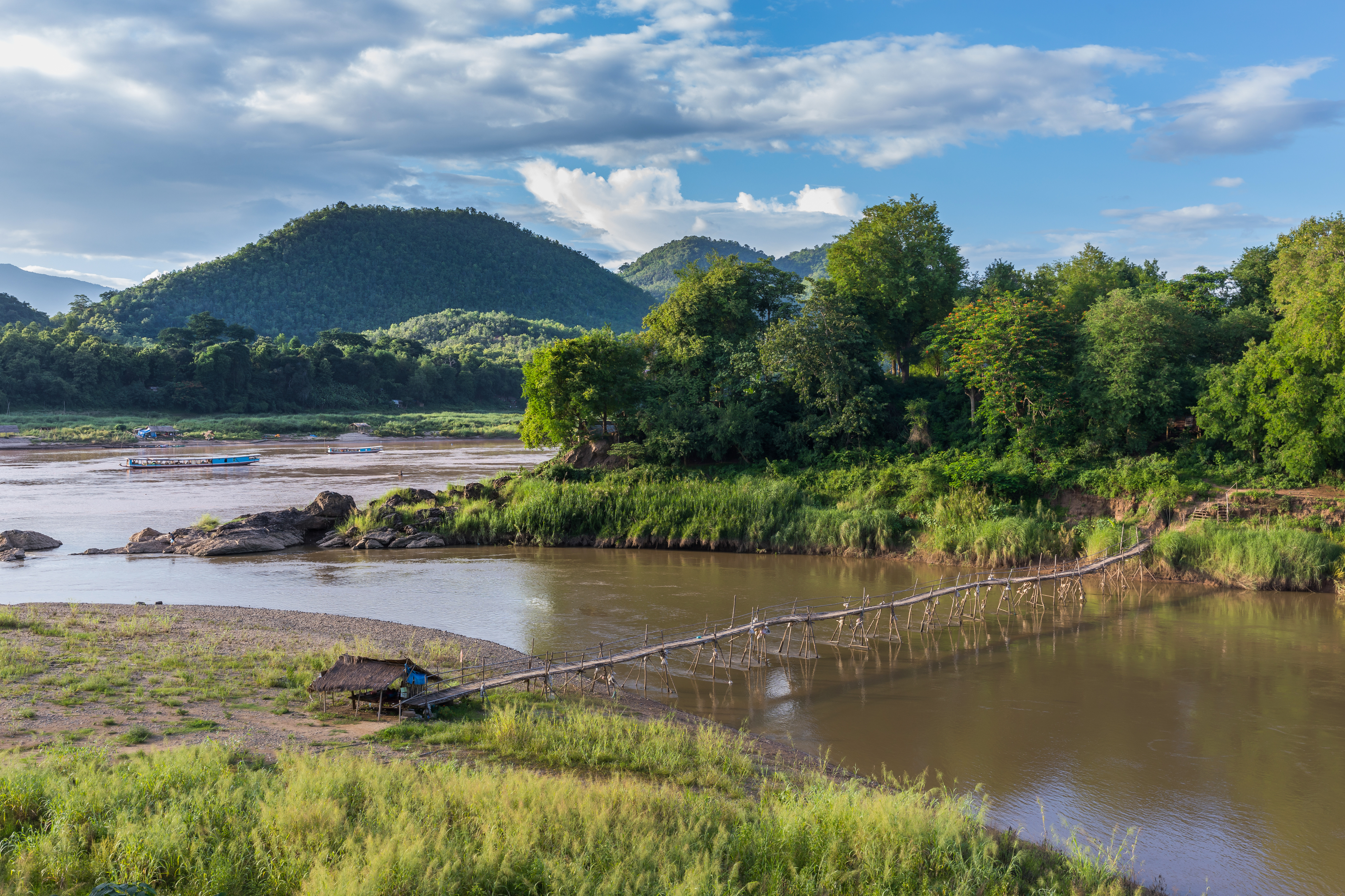 Landscape of Luang Prabang (Laos) showing a temporary wooden footbridge crossing the Nam Khan river meeting the Mekong, and green mountains in the background. View from the Riverview Park, near the Vat Pak Khan Khammungkhun temple, north-east of the city (June 2018)